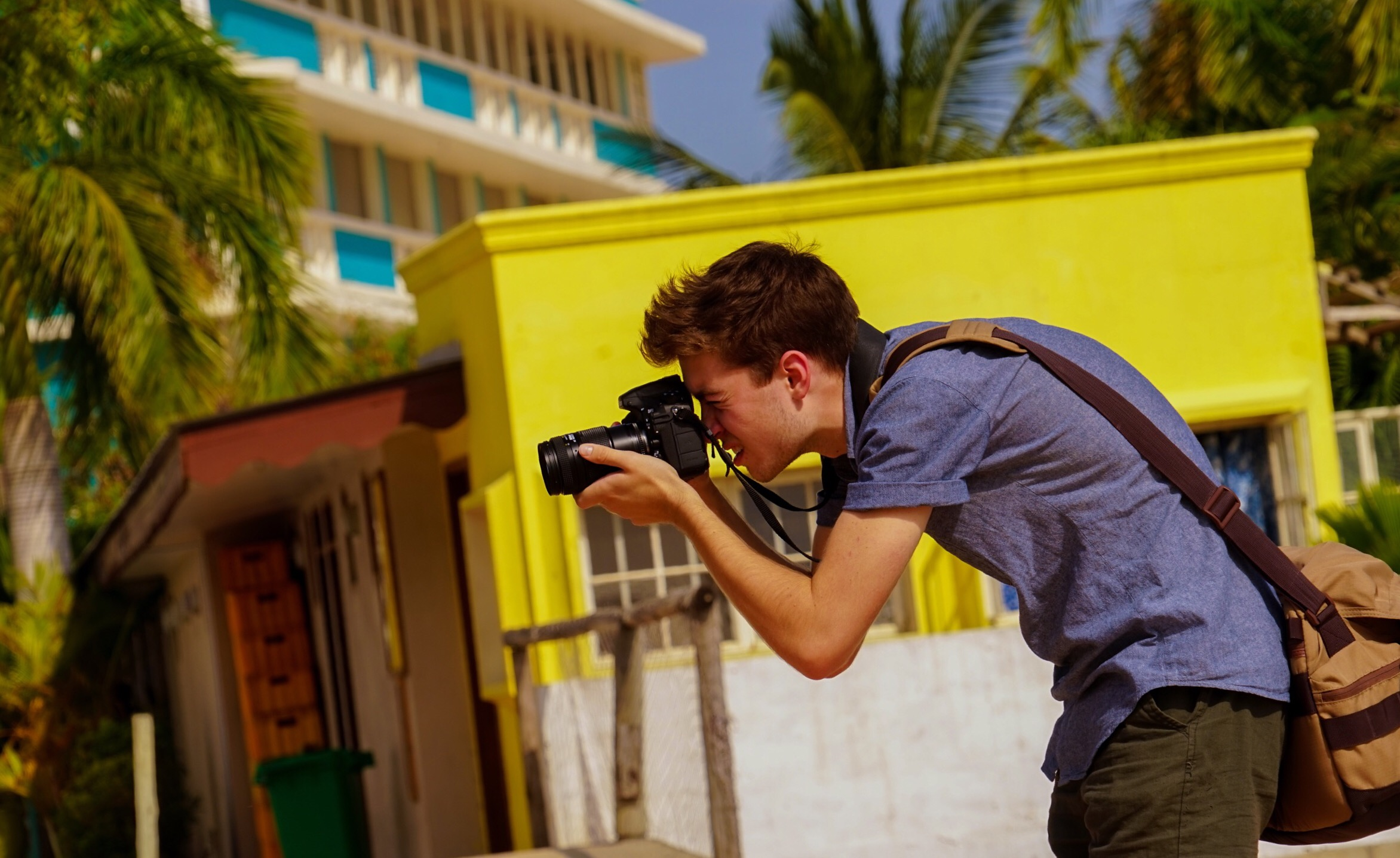 All thes pictures were taken by me in different locations around Tanzania. This is an image of "African people at work" from Tanzania